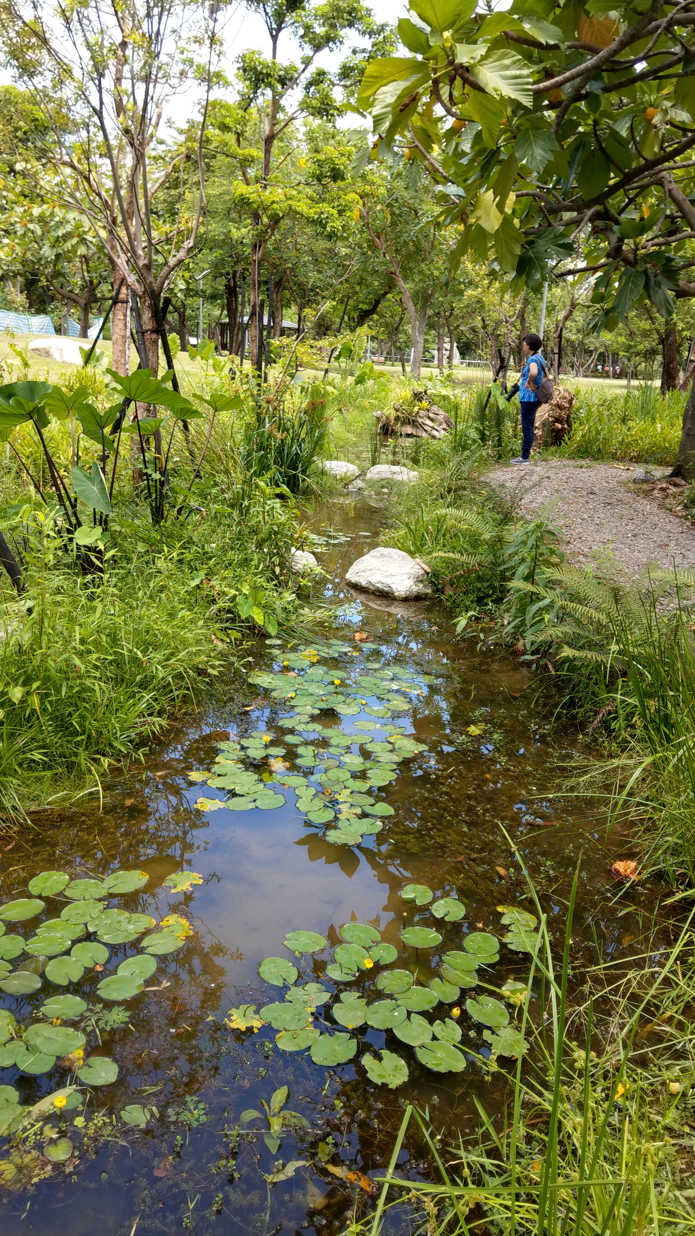 Small ecological pool in Daan Park, Taipei City, Taiwan.